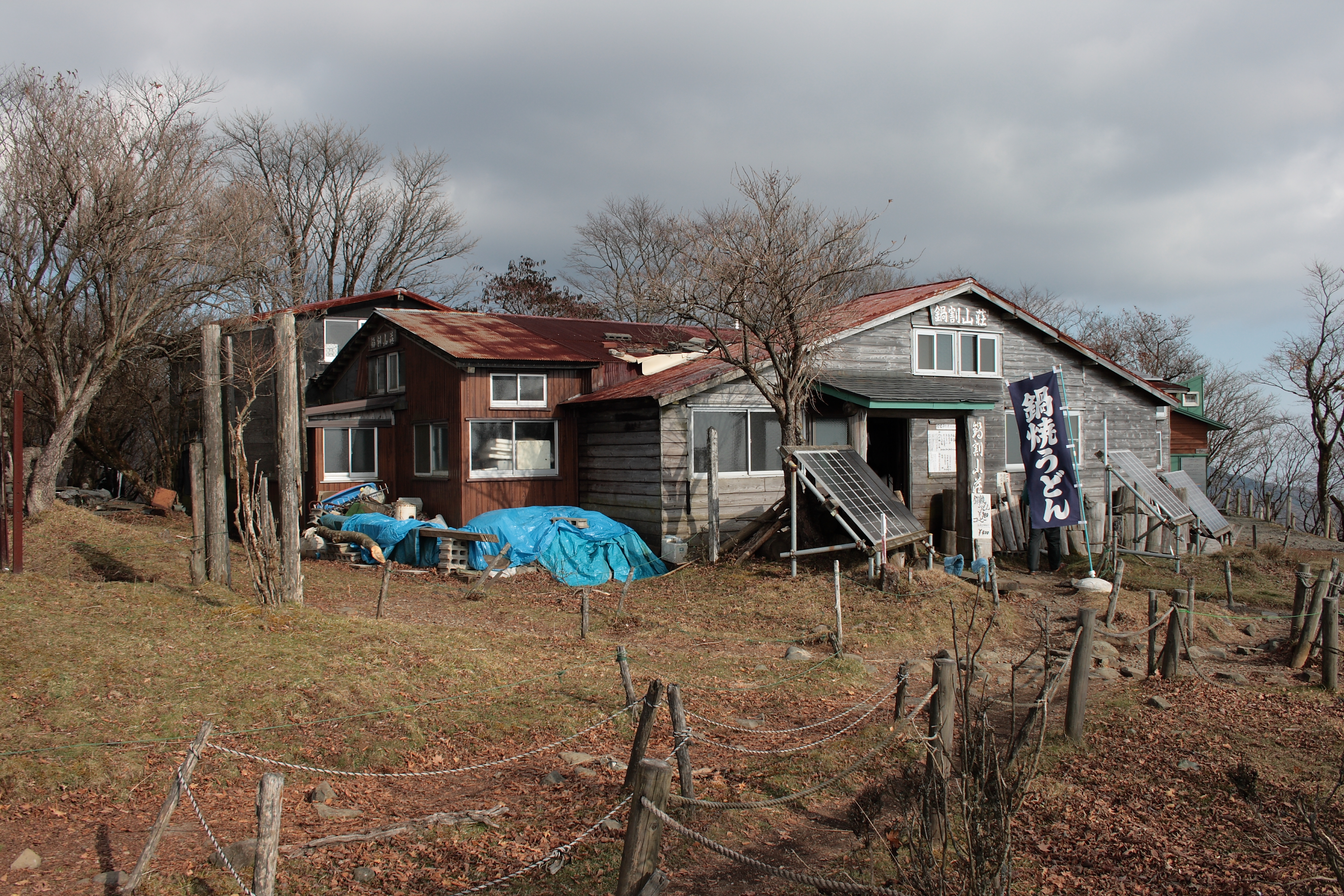 Nabewari Sanso on the top of Mount Nabewari in Kanagawa Prefecture, Japan